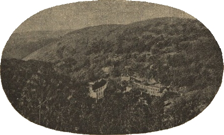 General view of the Monchique spa, in southern Portugal. This image was published in the Revista do Turismo magazine No. 70, of 20th May 1919, and scanned by the Hemeroteca Municipal de Lisboa.